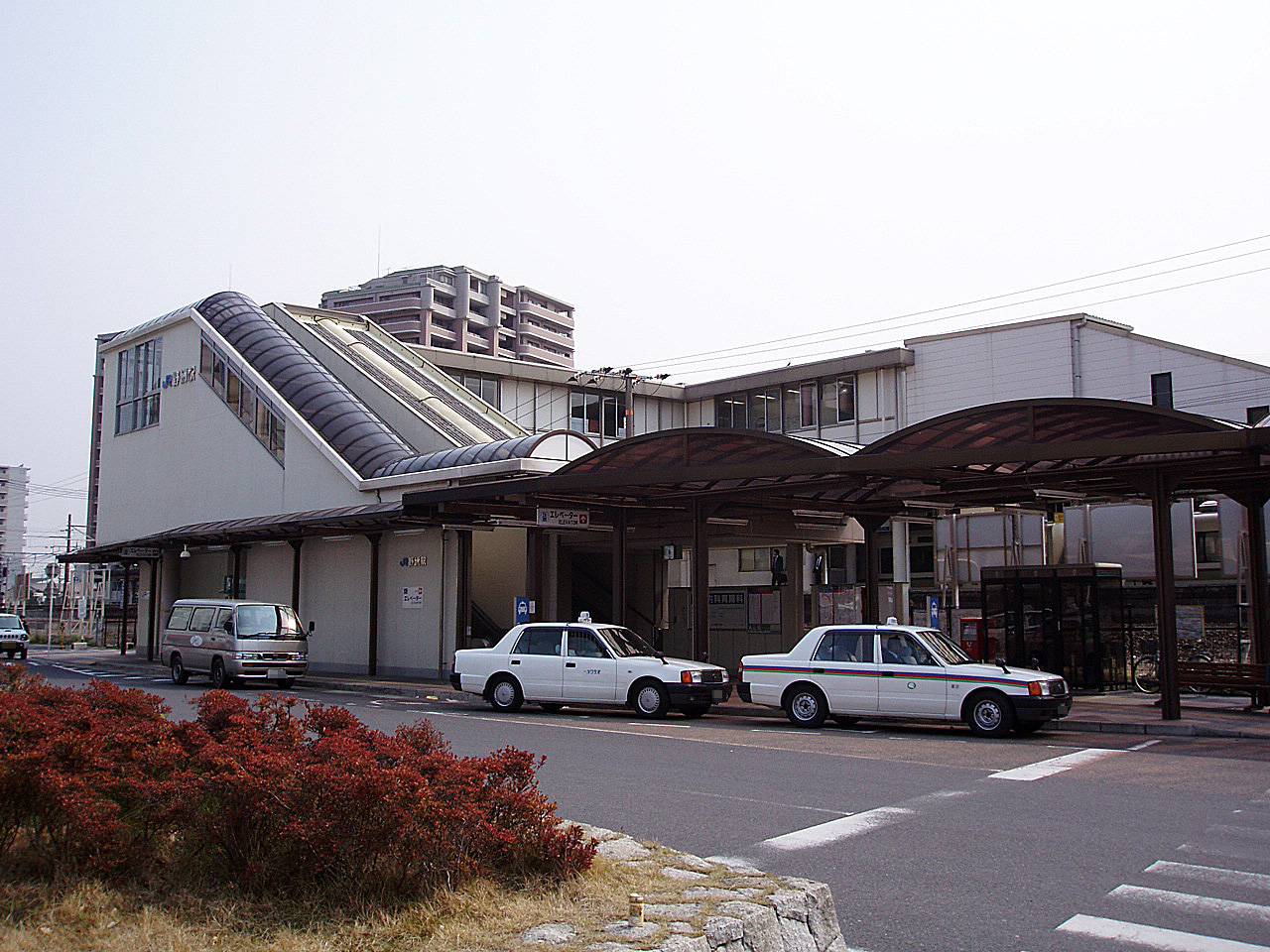 West Japan Railway Tōkaidō Main Line（Biwako Line） Yasu Station Building（North Gate） 西日本旅客鉄道 東海道本線（琵琶湖線） 野洲駅 駅建物（北出口）